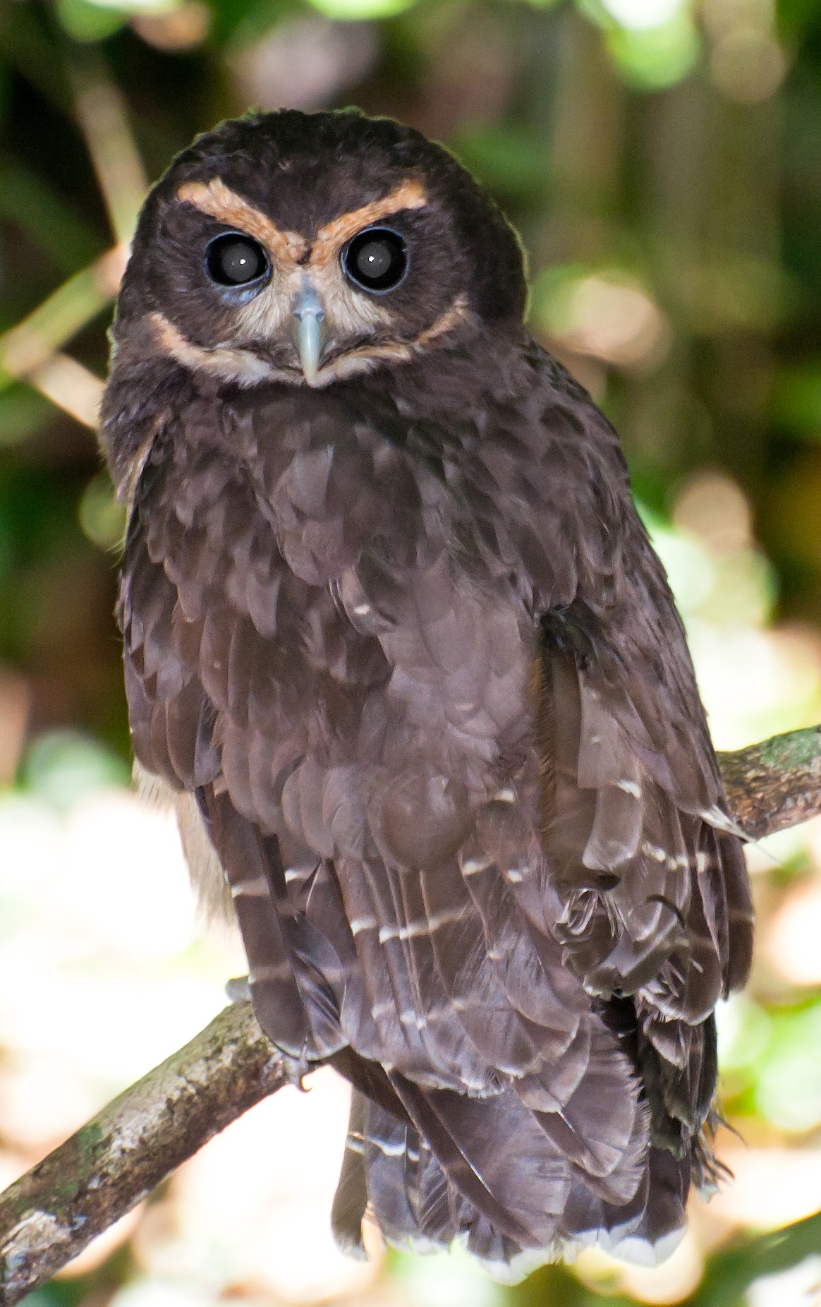 A Tawny-browed Owl (Pulsatrix koeniswaldiana) in Parque Estadual da Serra da Cantareira, São Paulo, Brazil.